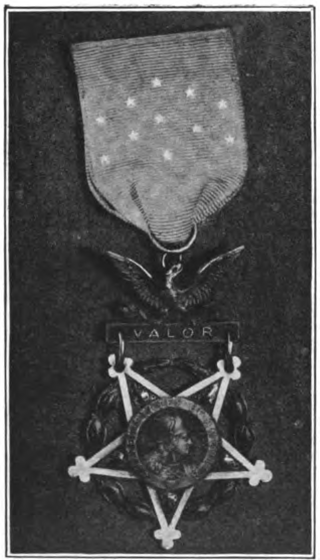 Medal of Honor earned by Isaac Gause. This medal contains the following words: "The Congress to Corporal Isaac Gause, Co. E., 2d Ohio Cav. Vols. for Gallantry near Berryville, VA., September 13, 1861." It was given to Corporal Gause on the recommendations of Generals Wilson and McIntosh.